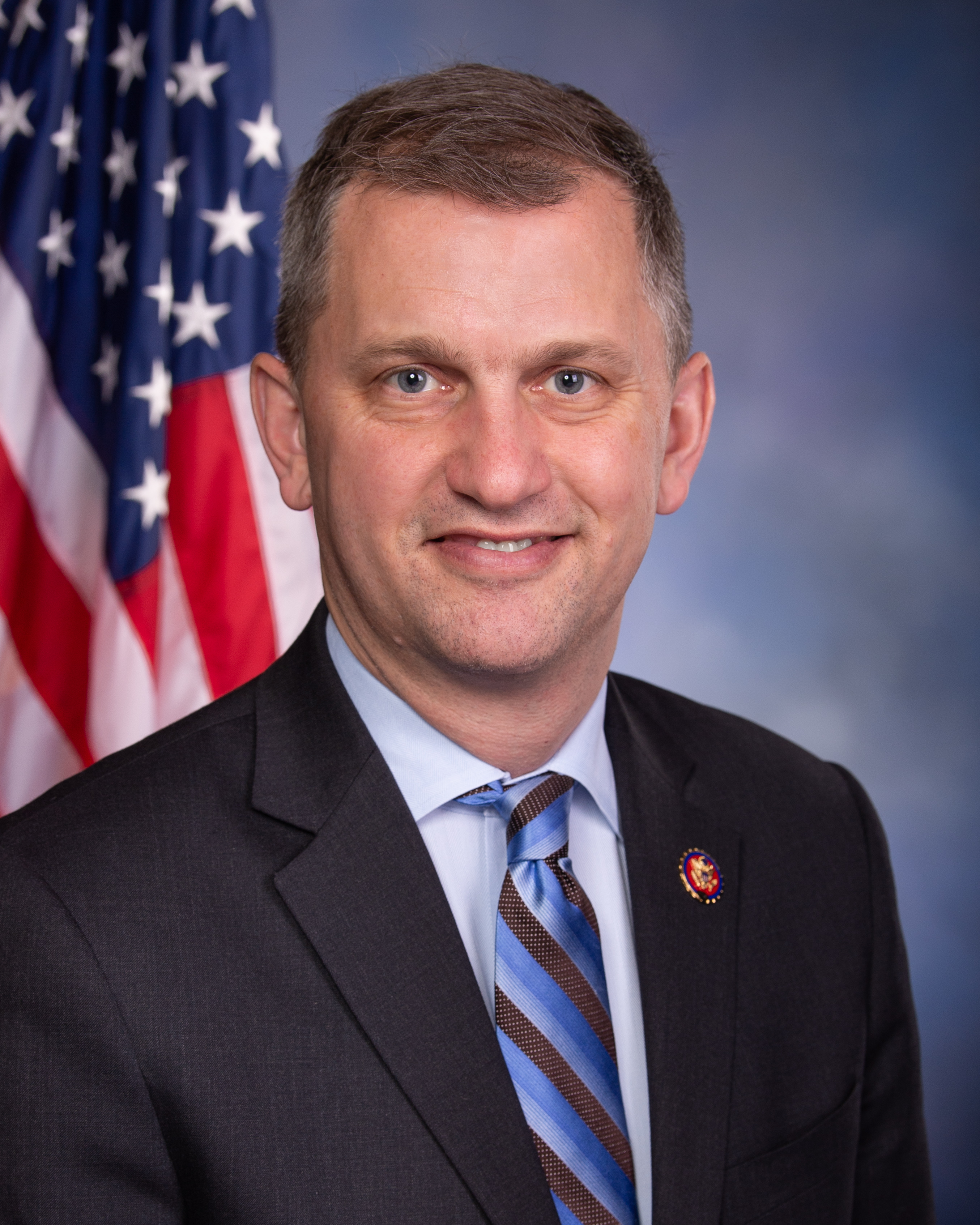 The official headshot of Rep. Sean Casten (D-IL)